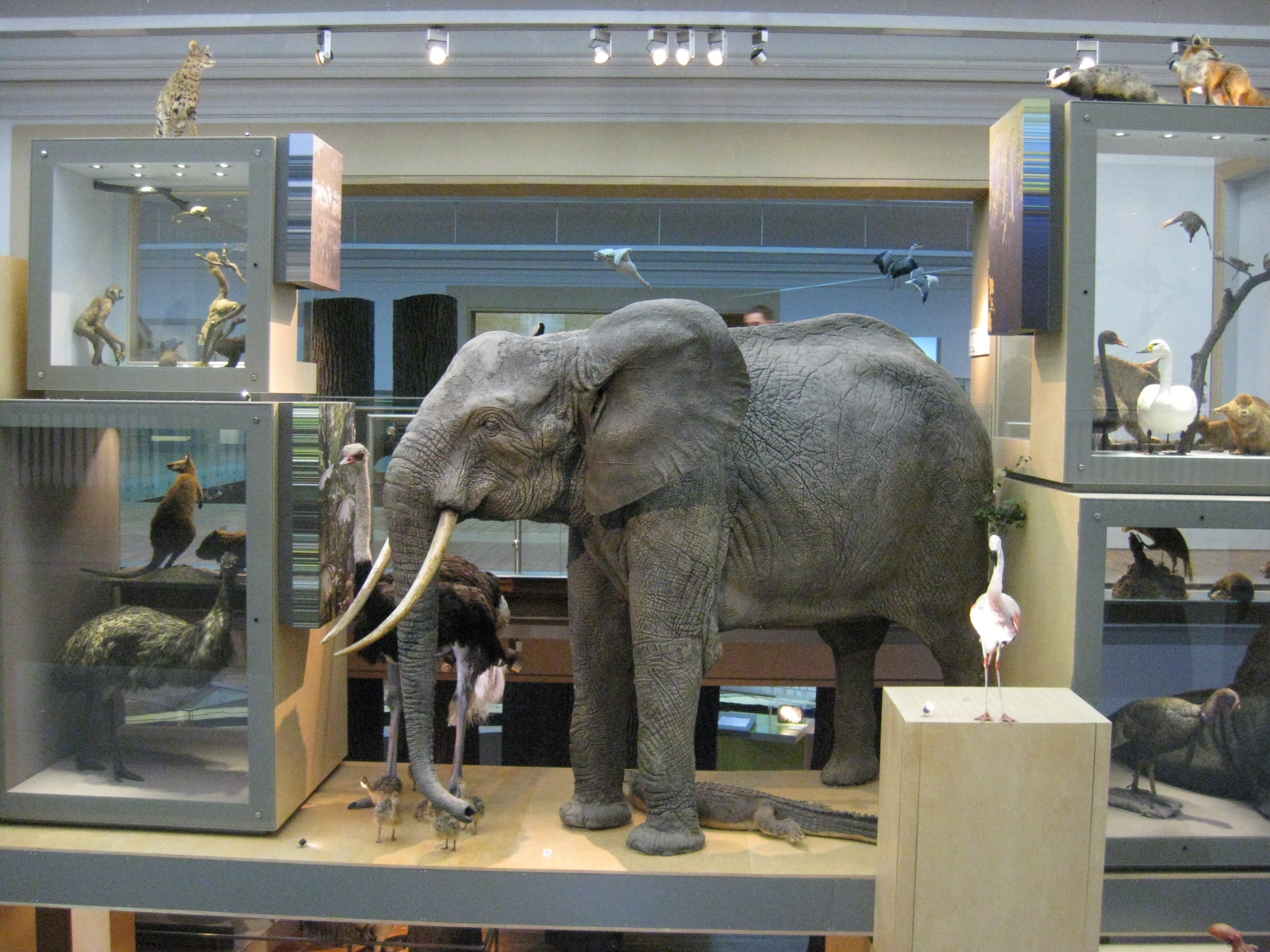 African Elephant (full size cast) at the Hancock Museum, Newcastle-upon-Tyne, UK.